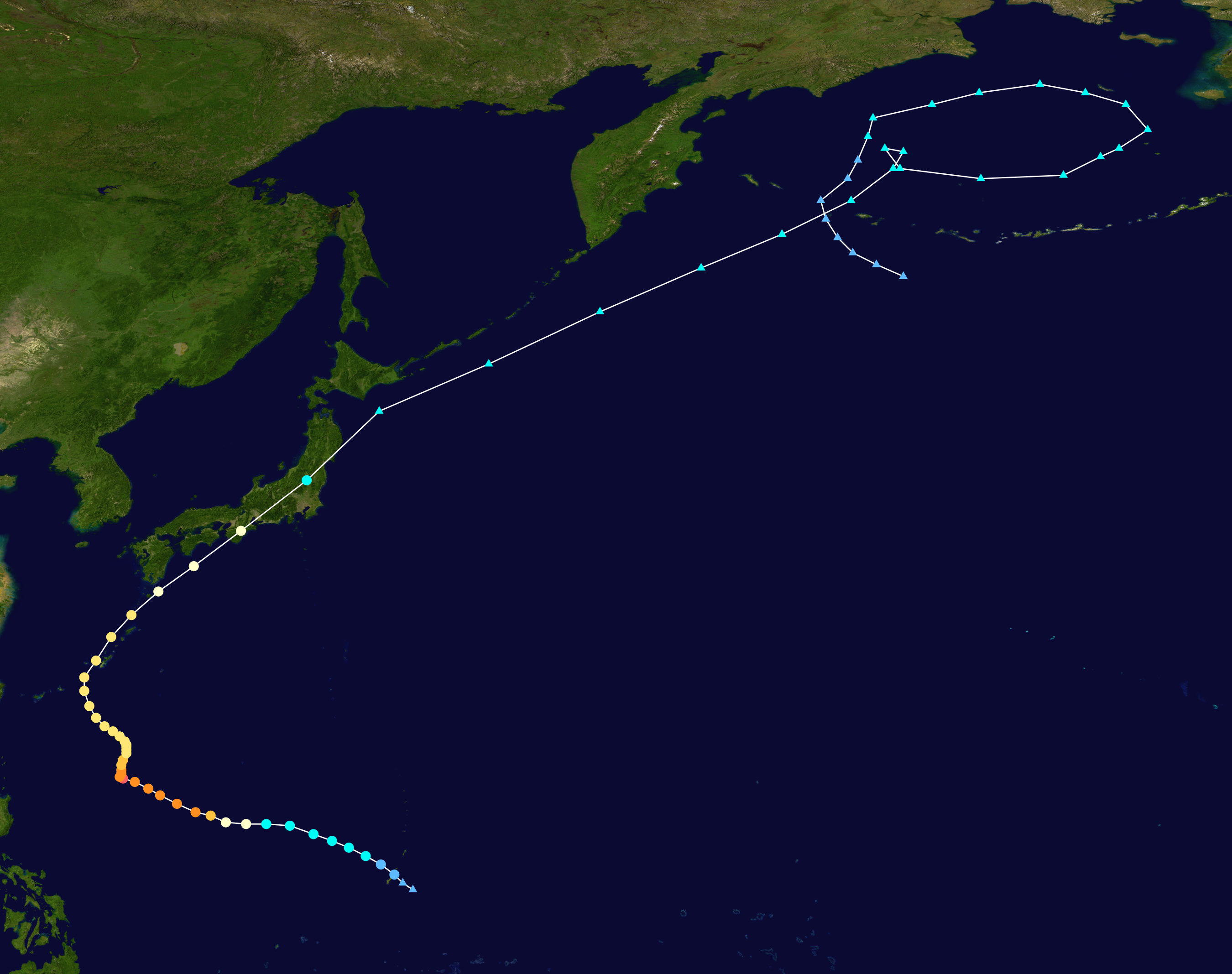 Track map of Typhoon Trami of the 2018 Pacific typhoon season. The points show the location of the storm at 6-hour intervals. The colour represents the storm's maximum sustained wind speeds as classified in the Saffir–Simpson scale (see below), and the shape of the data points represent the nature of the storm, according to the legend below. Saffir–Simpson scale Tropical depression≤38 mph≤62 km/h Category 3111–129 mph178–208 km/h Tropical storm39–73 mph63–118 km/h Category 4130–156 mph209–251 km/h Category 174–95 mph119–153 km/h Category 5≥157 mph≥252 km/h Category 296–110 mph154–177 km/h Unknown Storm type Tropical cyclone Subtropical cyclone Extratropical cyclone / Remnant low / Tropical disturbance / Monsoon depression